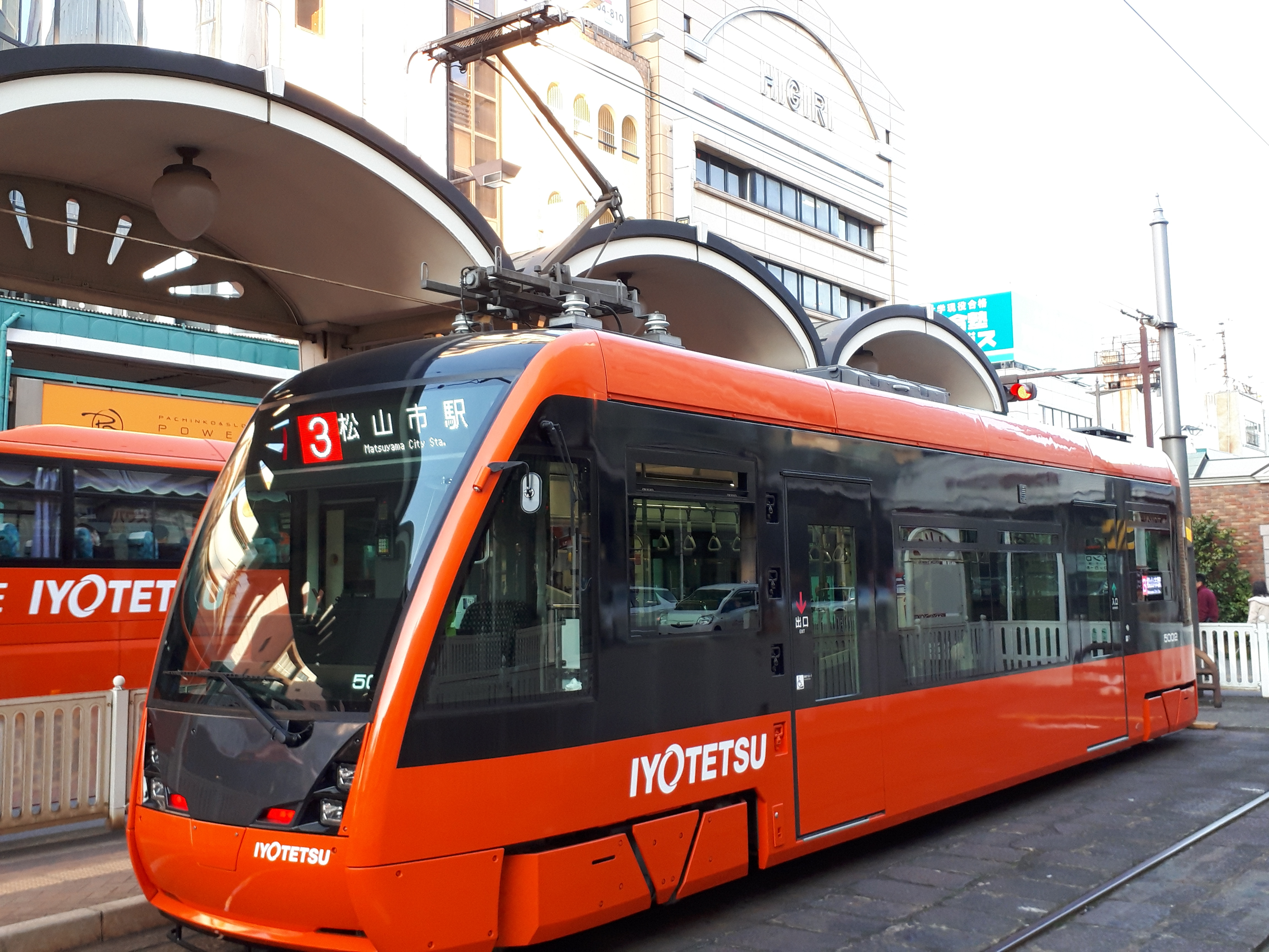 Iyo Railway 5000 series tramcar 5002 at Matsuyama City Station